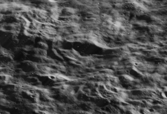 Oblique view of Lewis, on the far side of the moon, facing west.